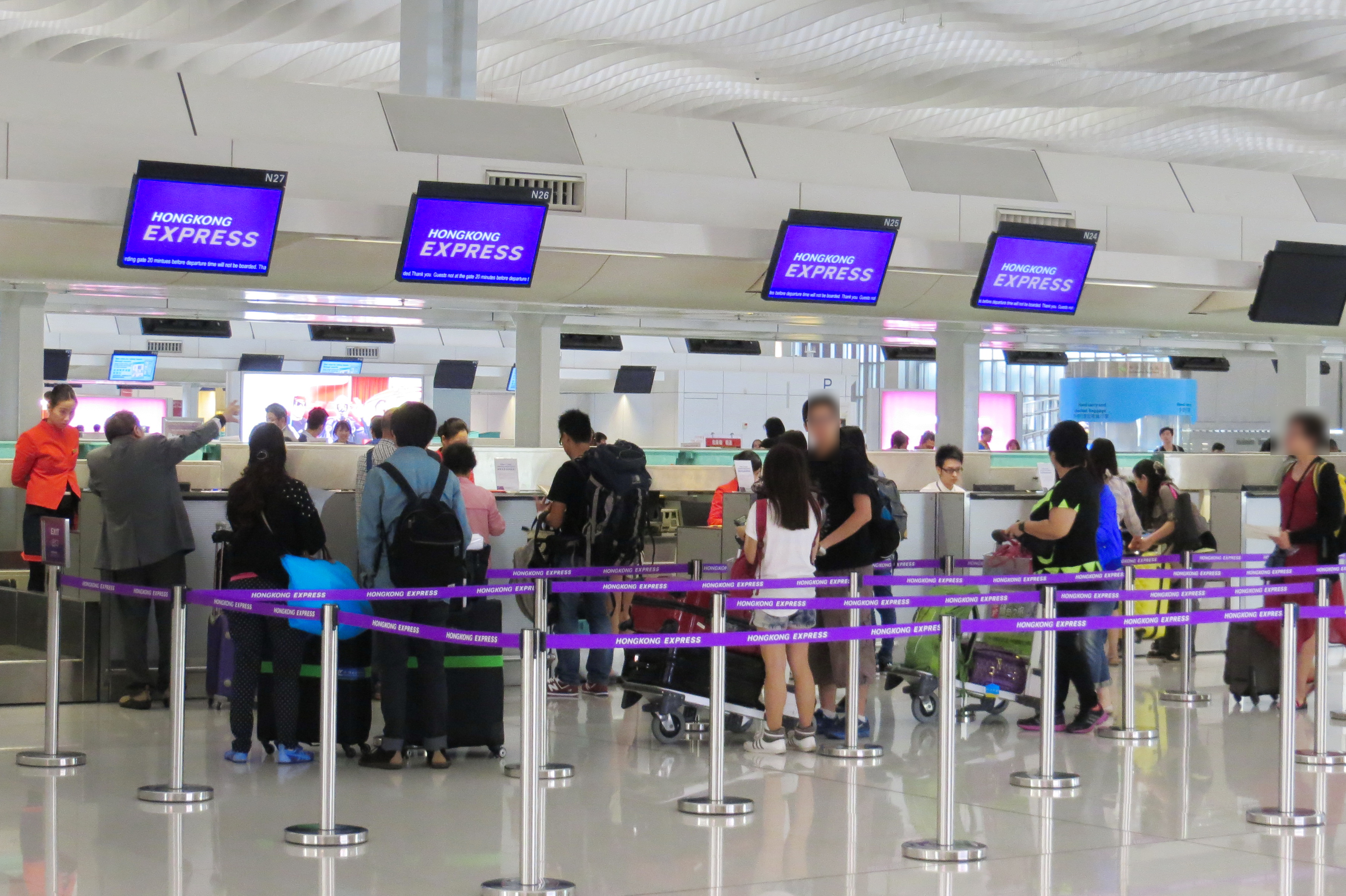 Hong Kong Express Airways check-in counter area (Aisle N, Terminal 2) at the Hong Kong International Airport